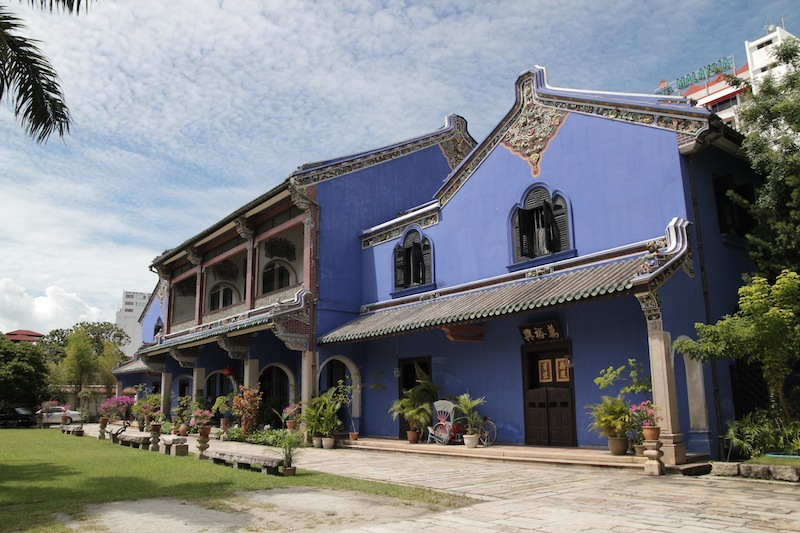 Exterior view of the iconic mansion with its glorious indigo blue walls.